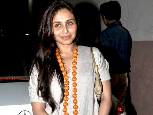 Rani Mukherjee at the special screening of PEEPLI LIVE